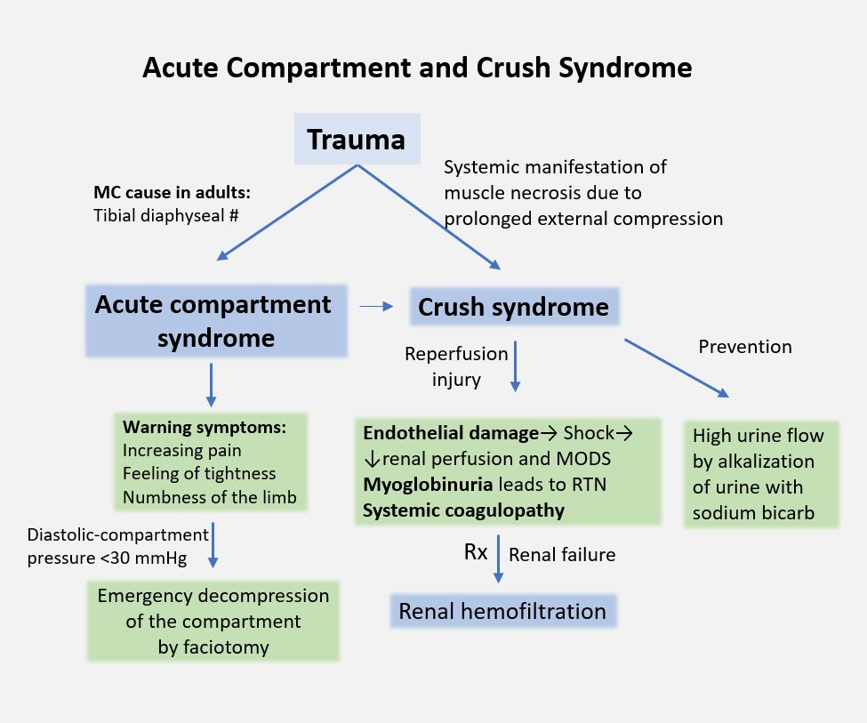 The chart explains briefly about acute compartment and crush syndrome.